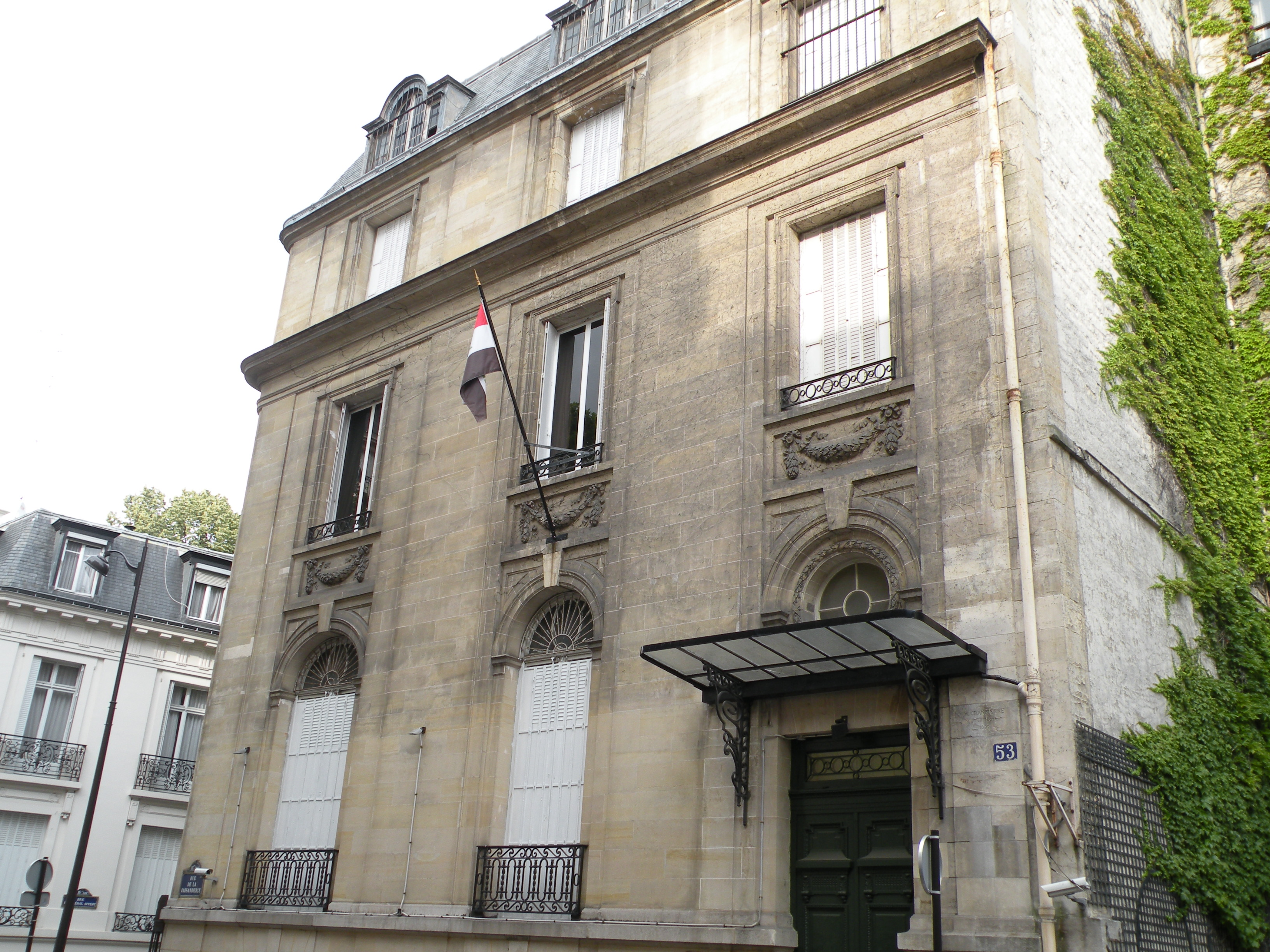 Iraqi embassy in France, Paris.